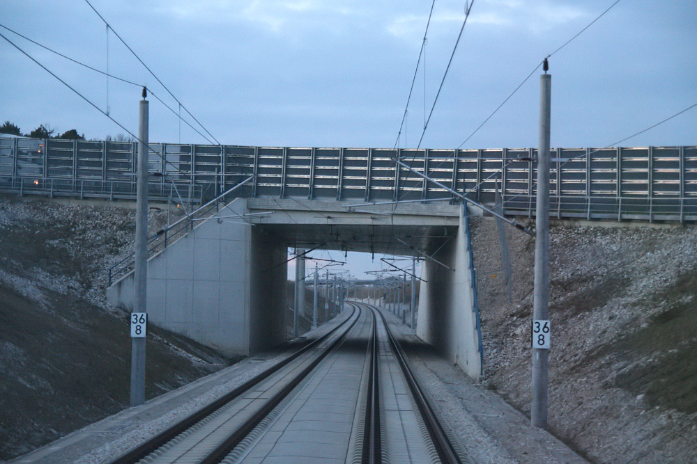 A so-called Ladungsabwurf-Rückhaltesystem, a massive steel barrier next to a road that crosses the Nuremberg–Ingolstadt high-speed railway line. These barriers, three meters in height, are to prevent freight items from falling down on the track.